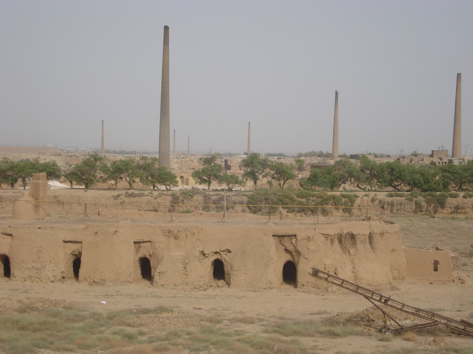 Brick traditional factories- Varamin, Tehran province, Iran